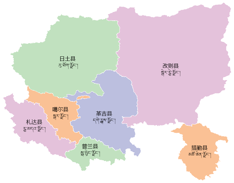 Counties in Ngari Prefecture (阿里地区), Tibet Autonomous Region of China